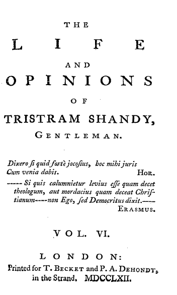 Title page